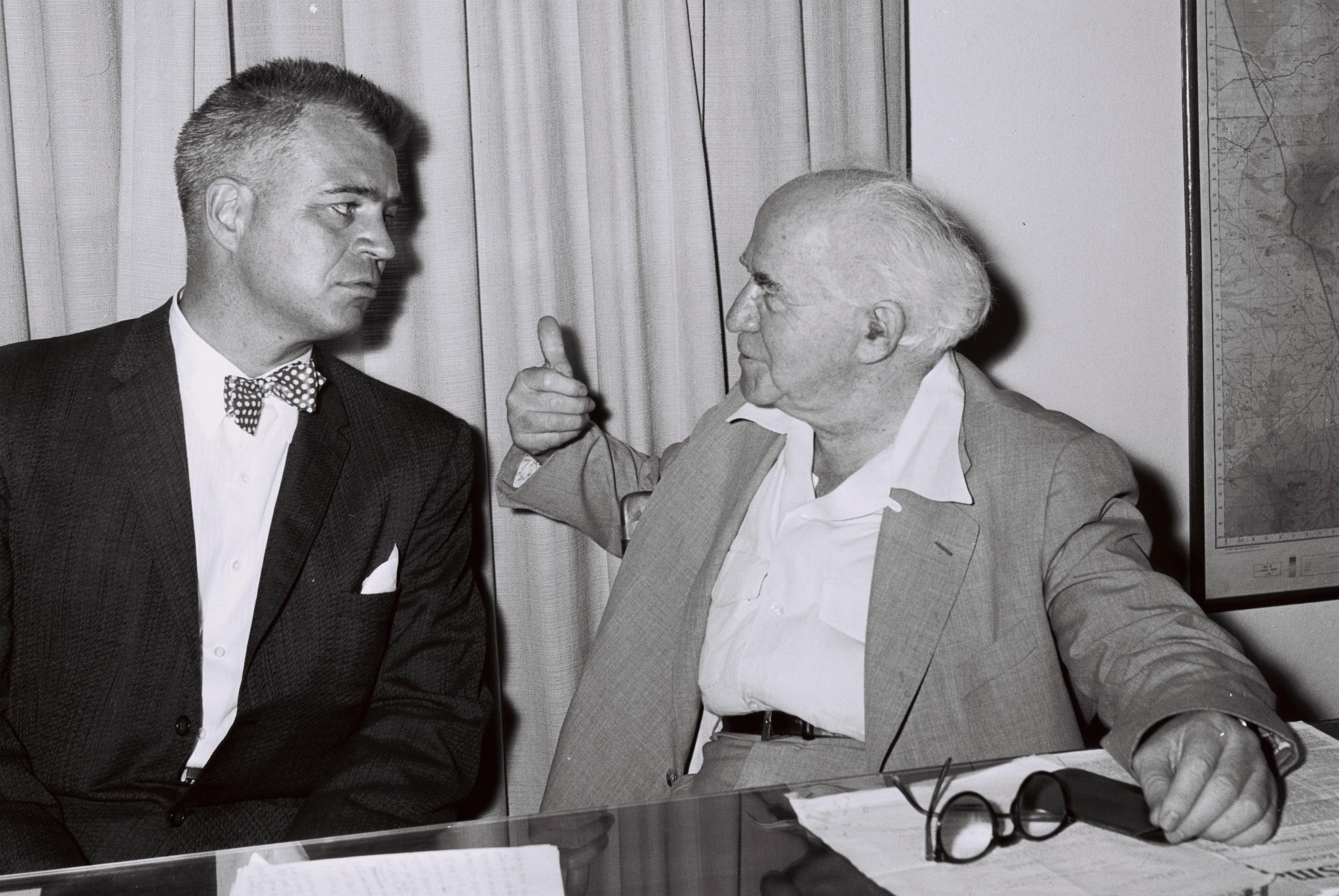 G._Mennen_Williams, Governor of Michigan, visits David Ben Gurion, the Prime Minister of Israel in Tel Aviv. October 1, 1959